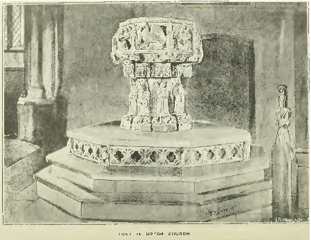 "Font in Upton Church" by Henry Gales, ink drawing